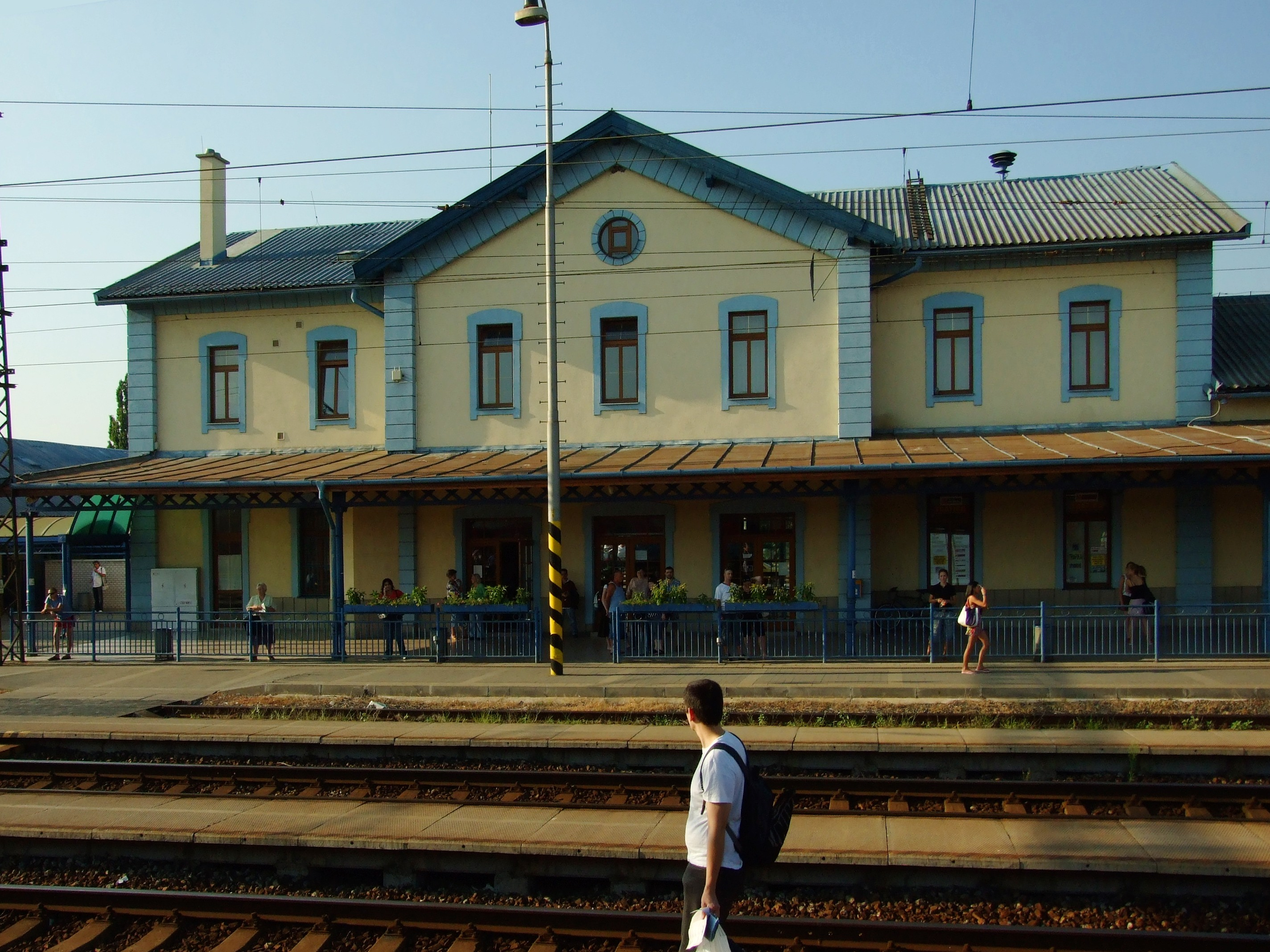 Galanta train station, SKhelp